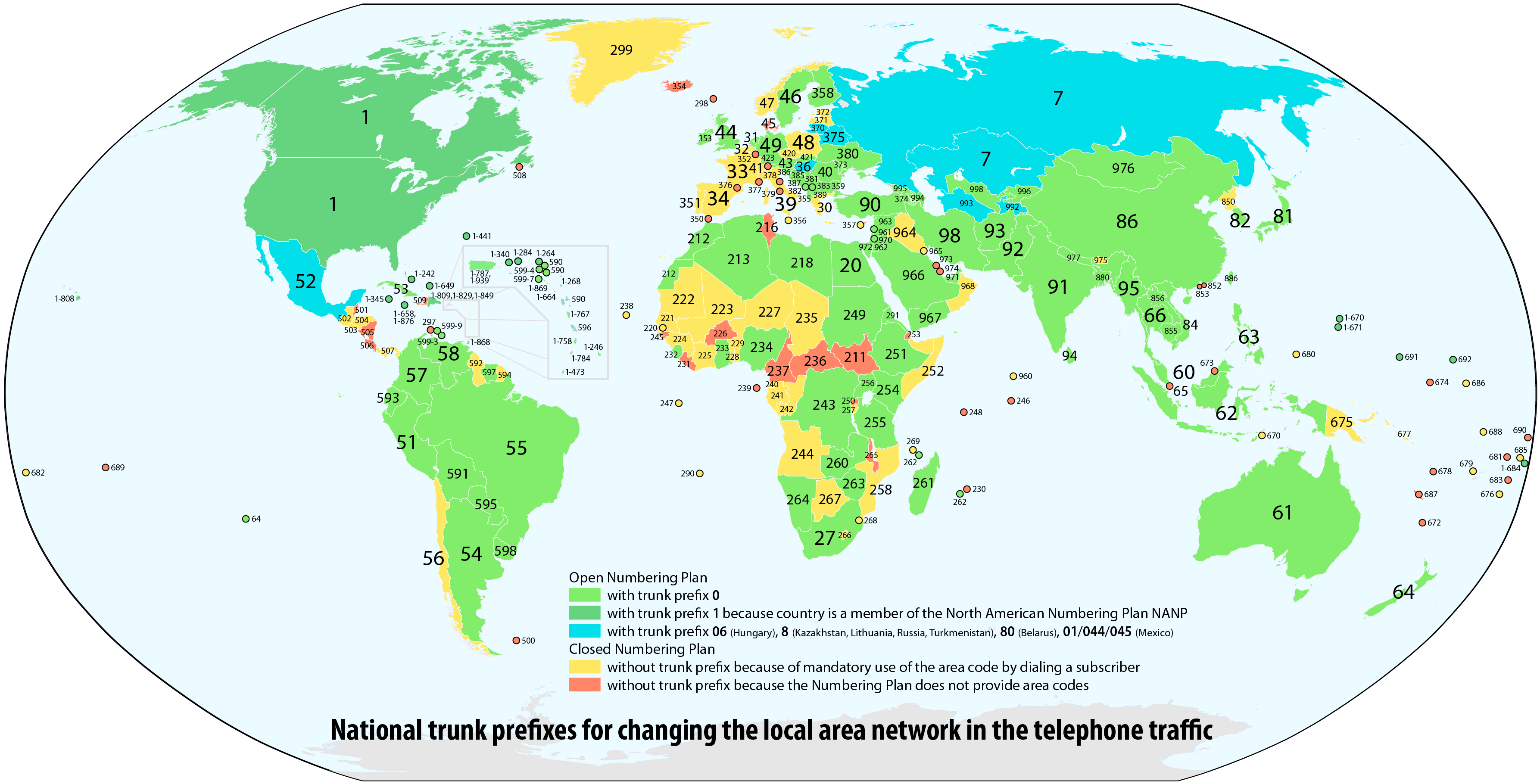 World map of the national trunk codes for changing the local area network and get to another dialing code in telephone traffic